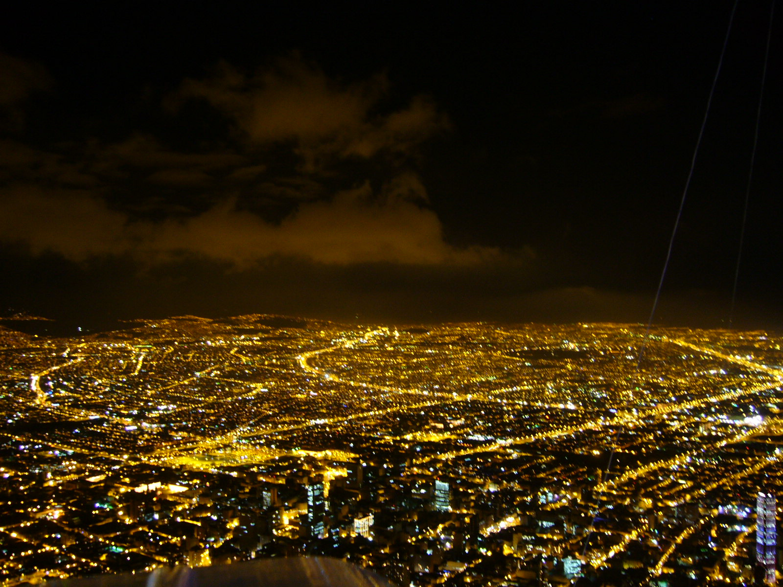 Panoramic of a part of the north of Bogotá from the Monserrate Church. The height was nearly 3.500 mts. Down right is the tallest building in Colombia lighted with the colors of the Colombian flag.